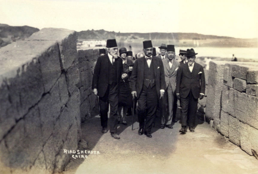 Adli Yakn Pasha listening to the explanations by monsieur Akao director of the relics department during his visit to the Temple of Anas Al Wugud.